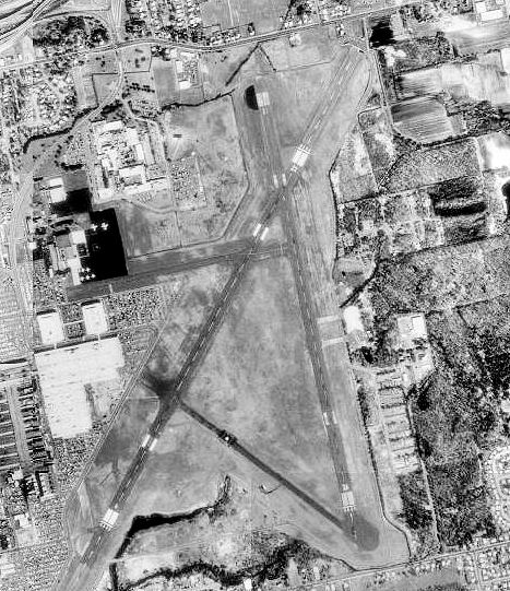 Aerial image of Rentschler Field, a former airport in Connecticut. It was decommissioned in 1999, after which a football stadium of the same name was built on the site.